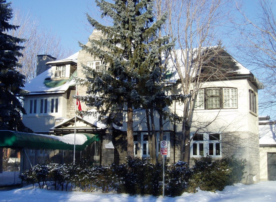 Embassy of Tunisia in Ottawa (Canada)